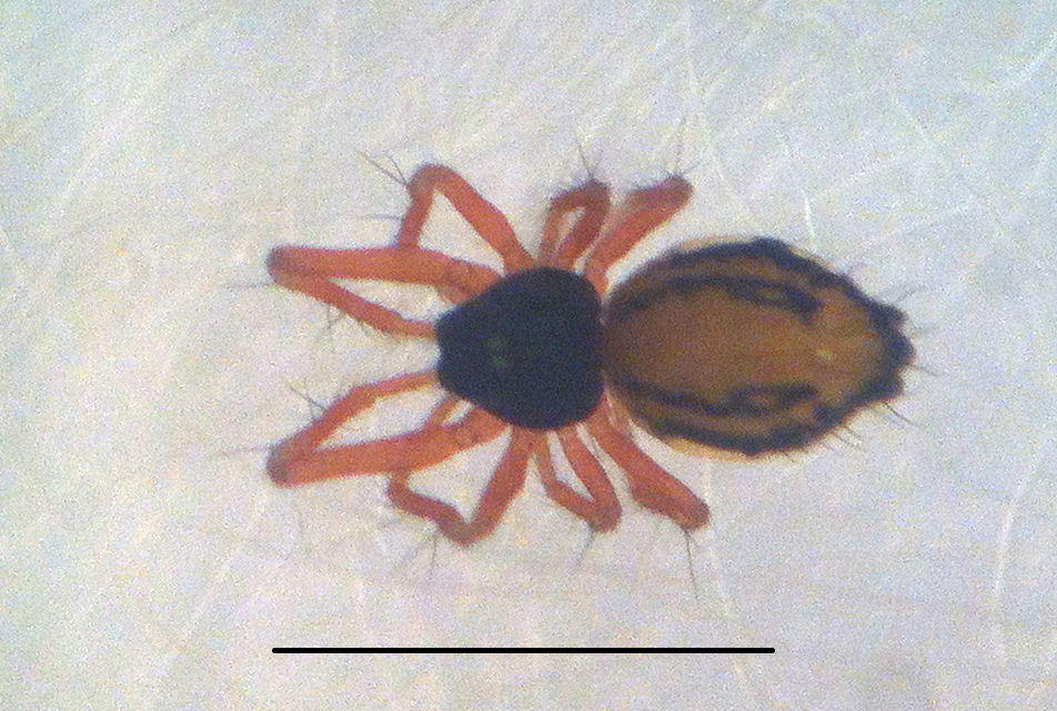 Crassignatha danaugirangensis female, dorsal view. Scale bar 1 mm.